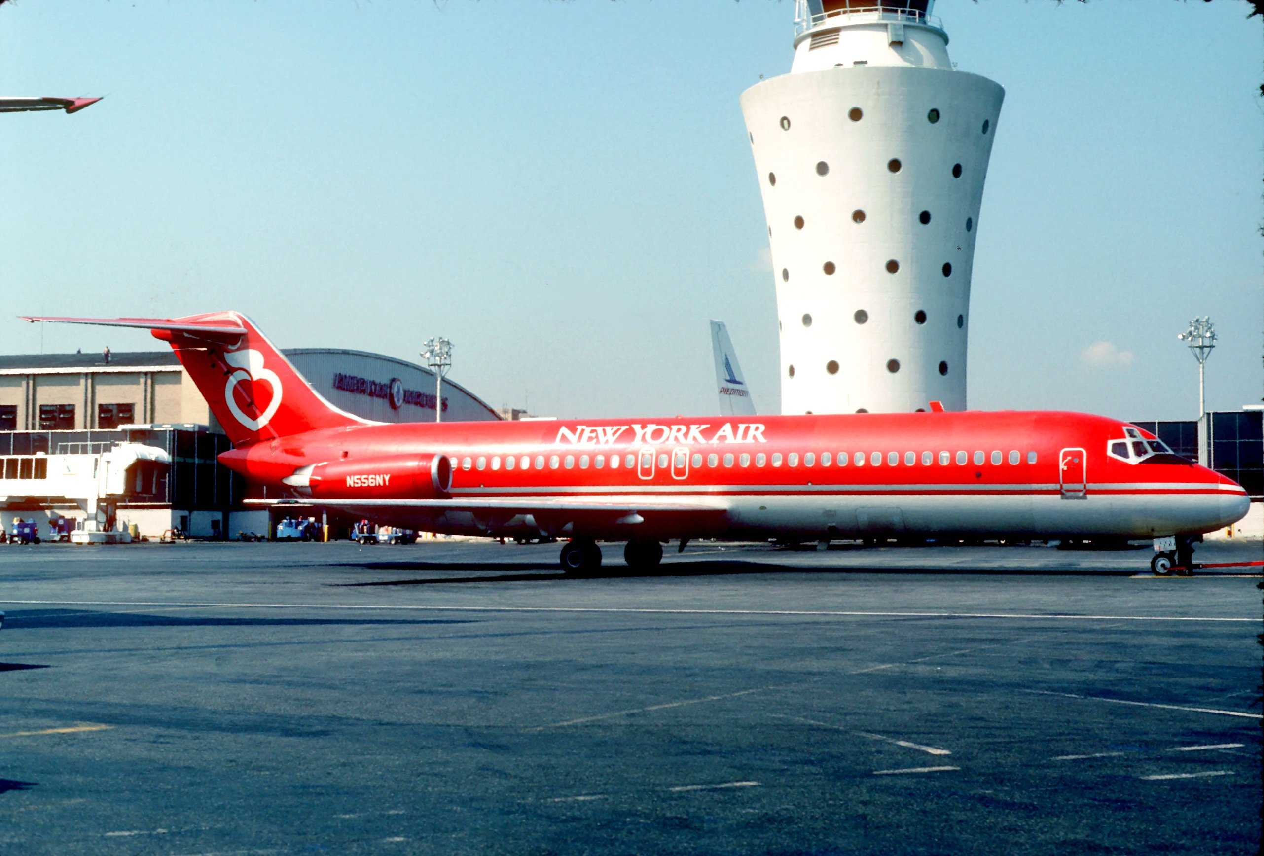 New York Air DC-9-32; N556NY@LGA, August 08, 1984